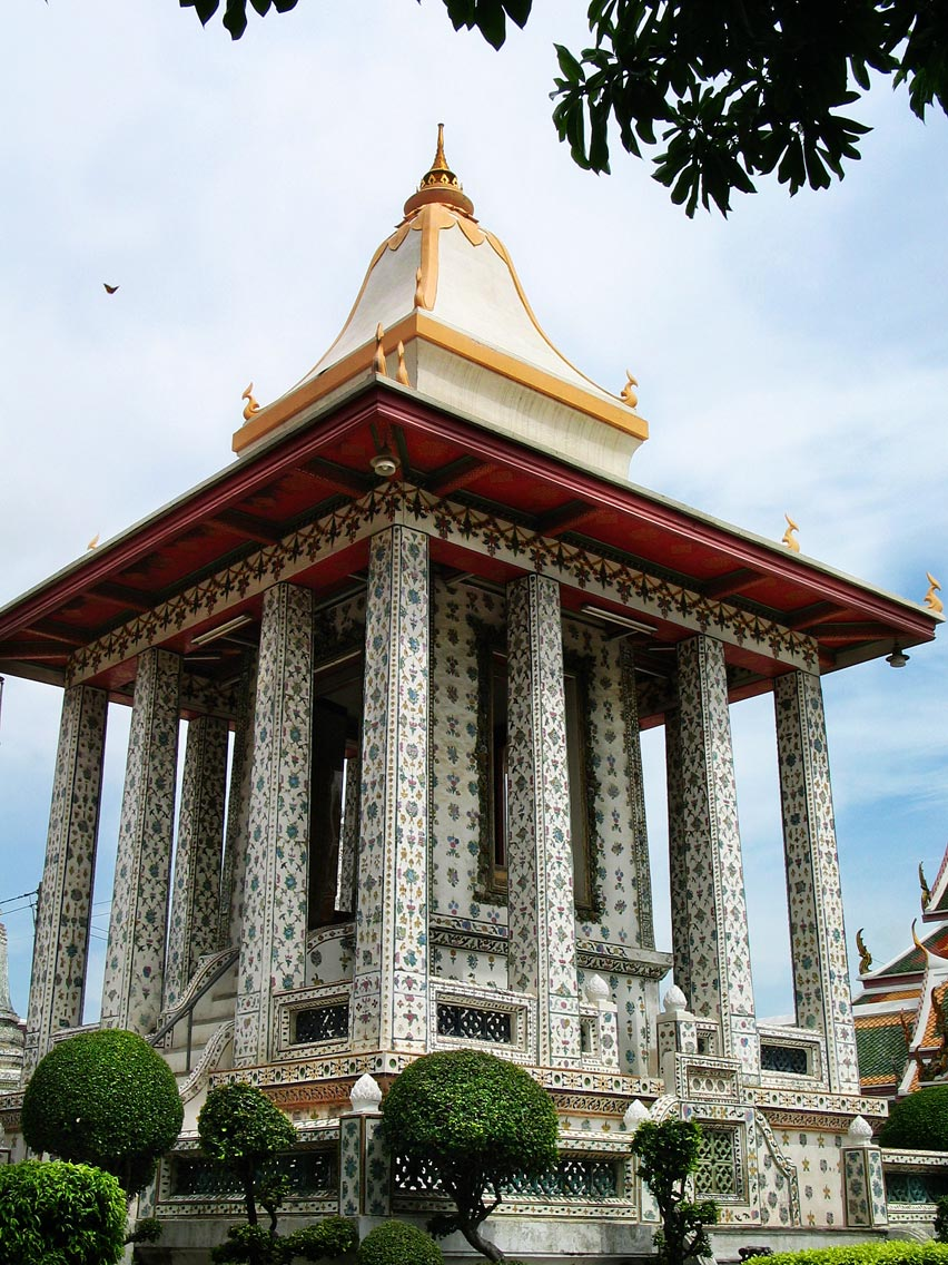 Wat Arun, Bangkok, Mondop housing Buddha's footprint